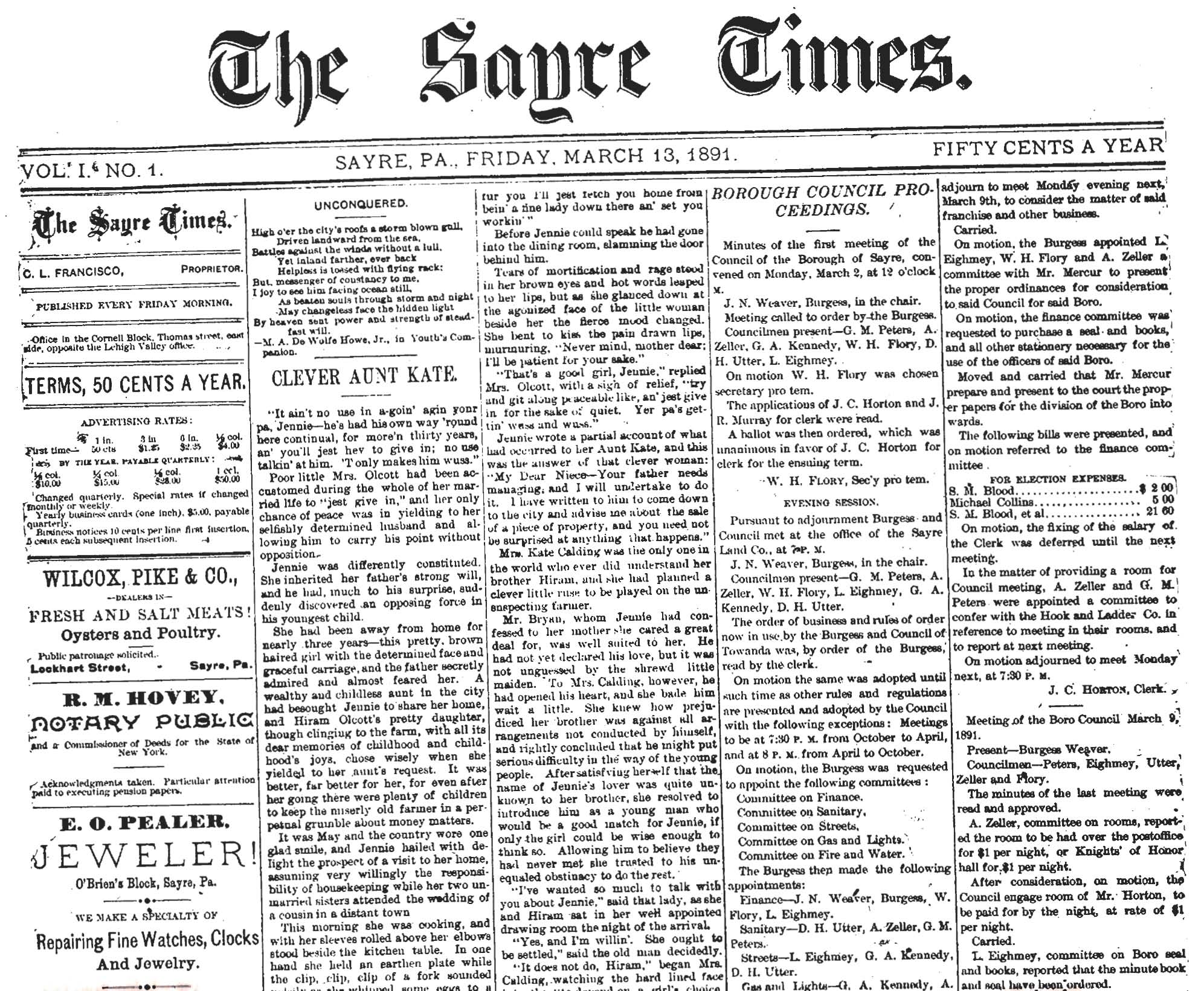 Scanned copy of the first edition of the Sayre Times